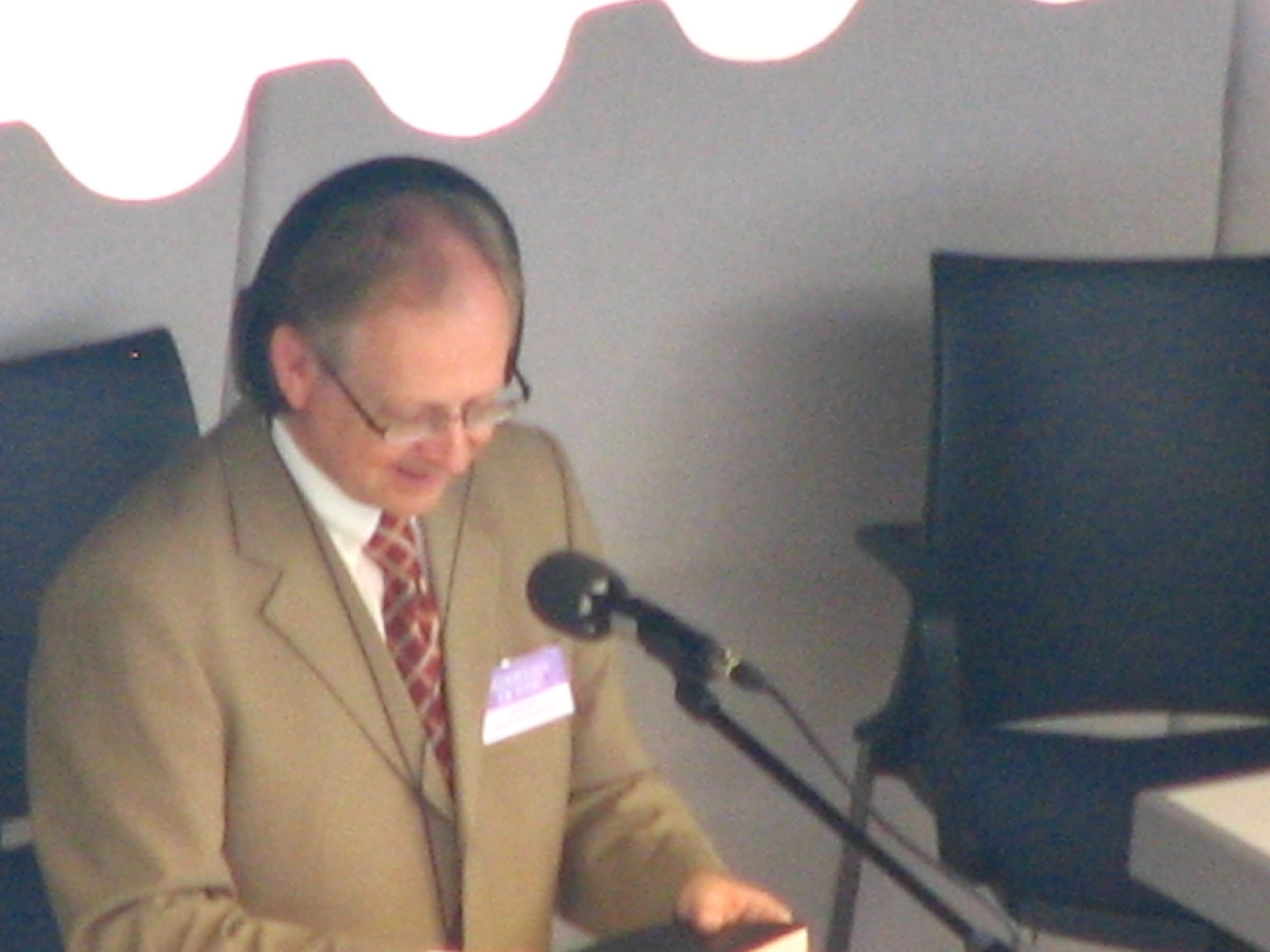 Michael Bjørk translates simultaneously from English to Danish at a Districts convention of Jehovah's Witnesses in Hamburg (2006)